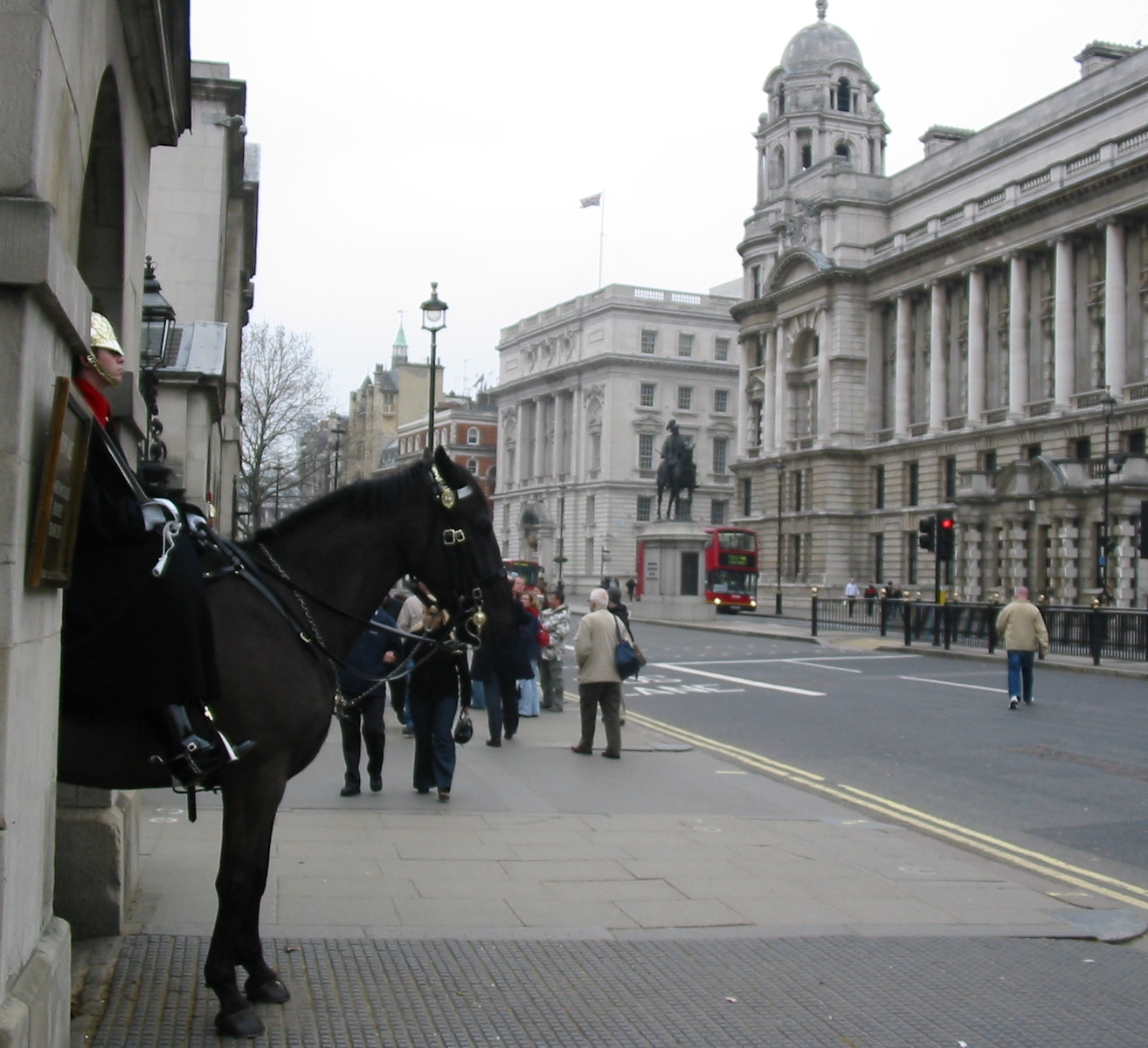 London